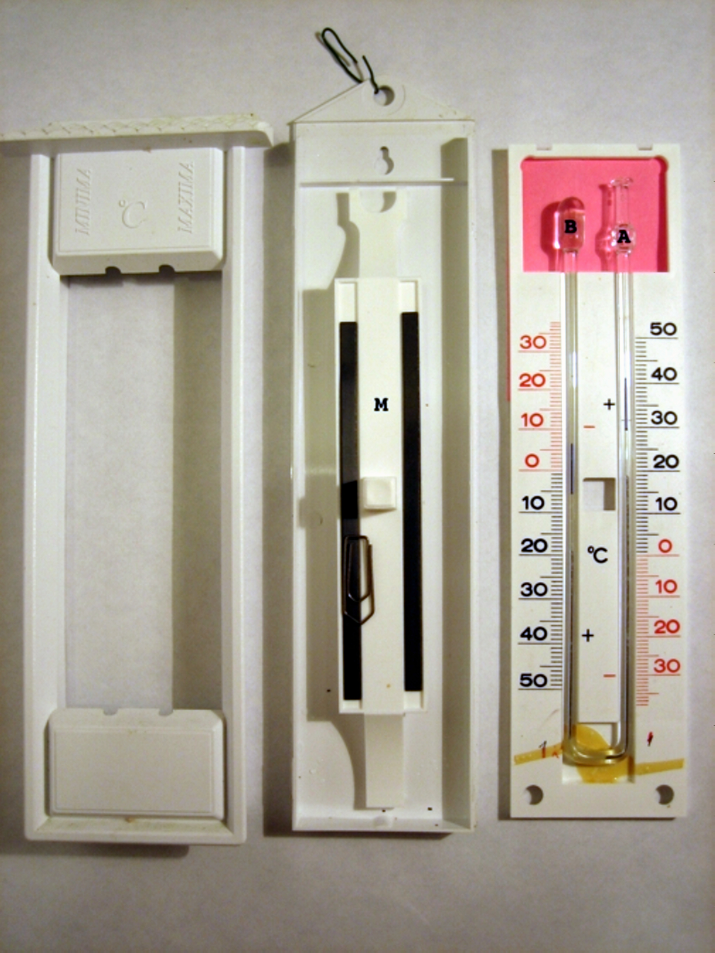 A maximum minimum thermometer, also known as Six’s thermometer after its inventor. The scales are in centigrade. The current temperature is 19 Centigrade, the maximum recorded is 29, and the minimum is 6, both read from the base of the small markers in each arm of the U tube. The bulbs are shown, plastic housing is dissassembled. Bulb A holds air, Bulb B holds the expandable liquid. M indicates position of those dark magnetic strips fixing the small markers when mounted in place. There is a paper clip adherant at the dark strip to show it is magnetic.